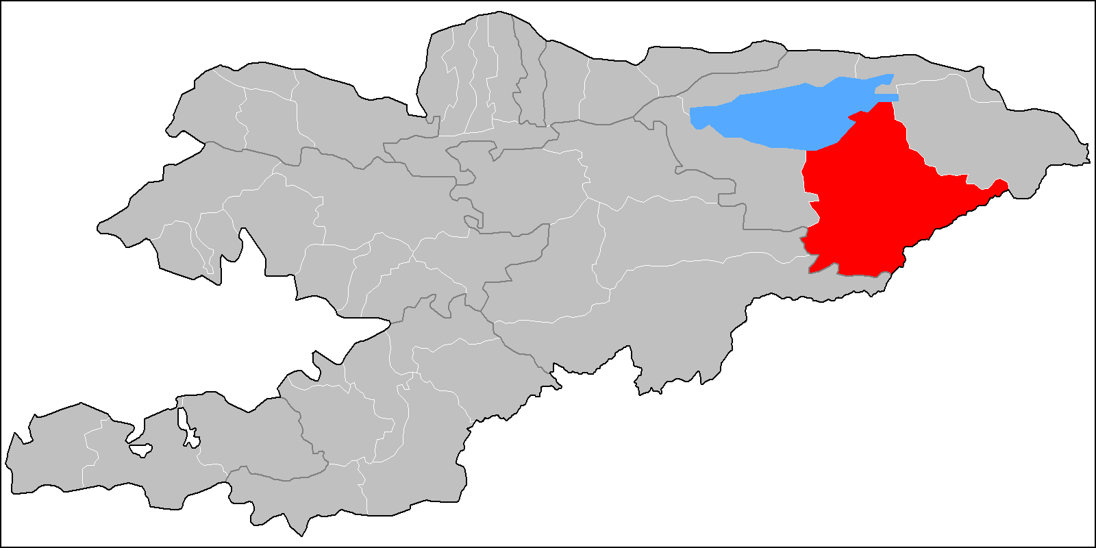 The location of the raion (district) of Jeti-Ögüz in Kyrgyzstan. Based on Image:Kyrgyzstan raions.png